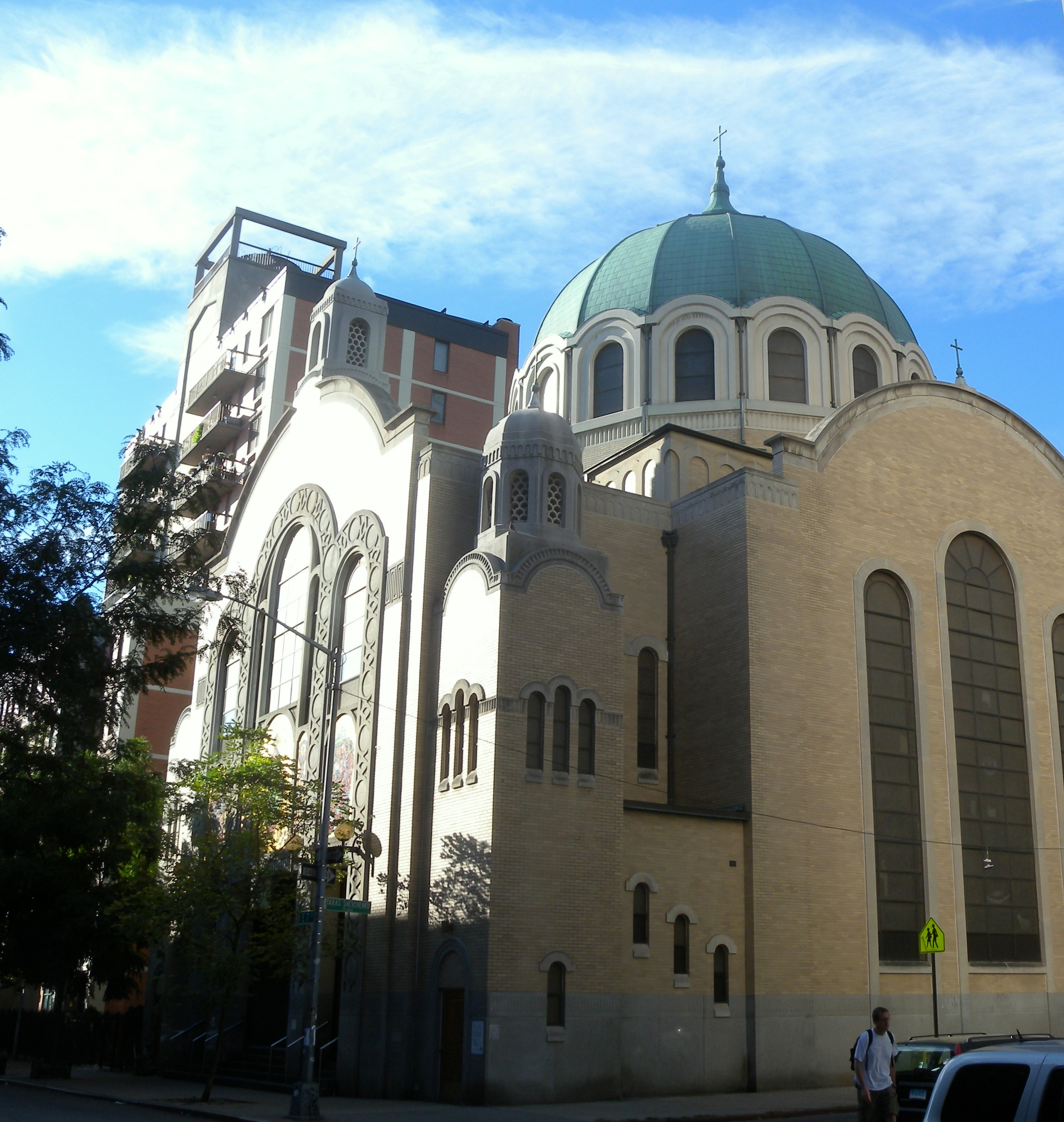 Looking southeast across 7th and Hall Streets at St George's Ukrainian Catholic Church on a sunny morning.